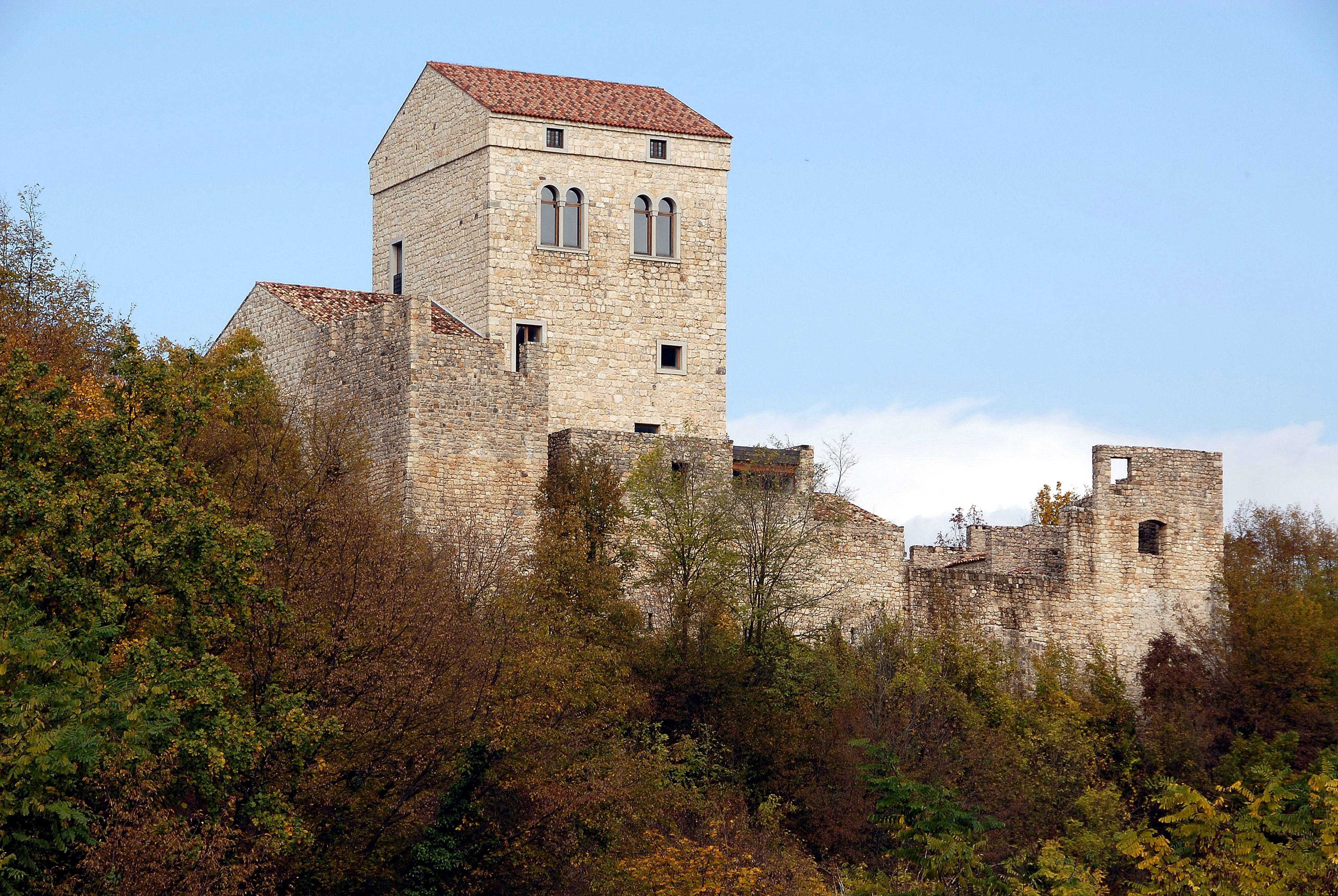 Medieval castle of Ragogna in the community Ragogna, province of Udine, region Friuli Venezia-Giulia, Italy